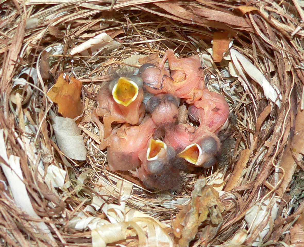 Pied flycatcher (Ficedula hypoleuca), chicks in nest box; picture taken in the Etelä-Pohjanmaa region (Finland)